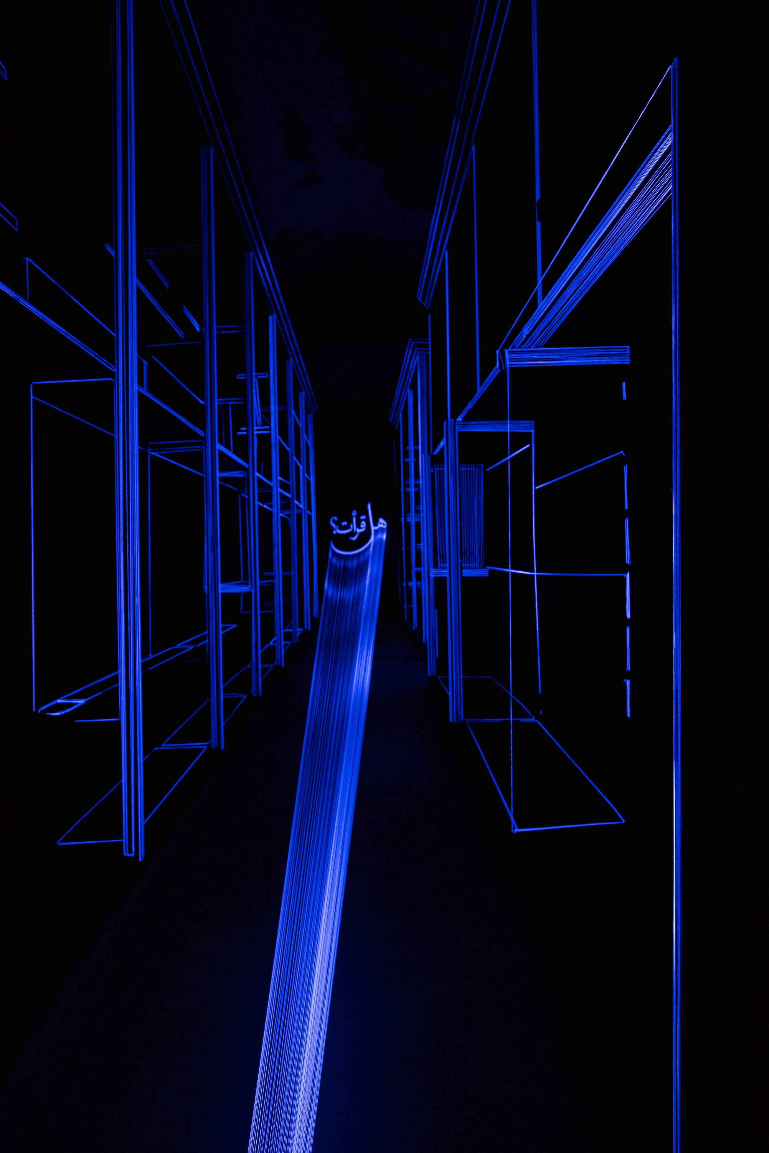 Visual Effects Interference in the Tunis Medina, Tunisia